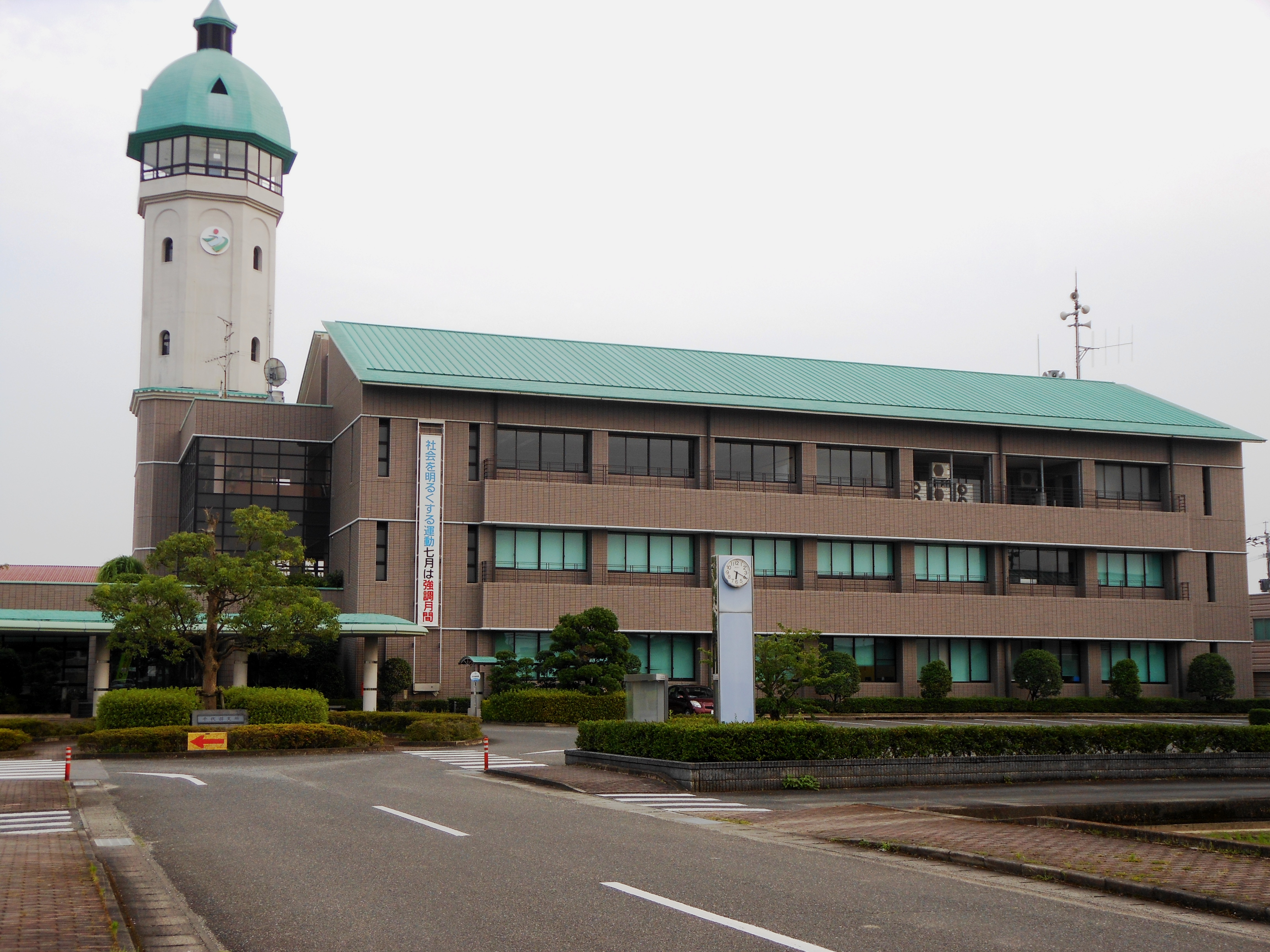 Chiyoda branch office of Kanzaki City Hall.